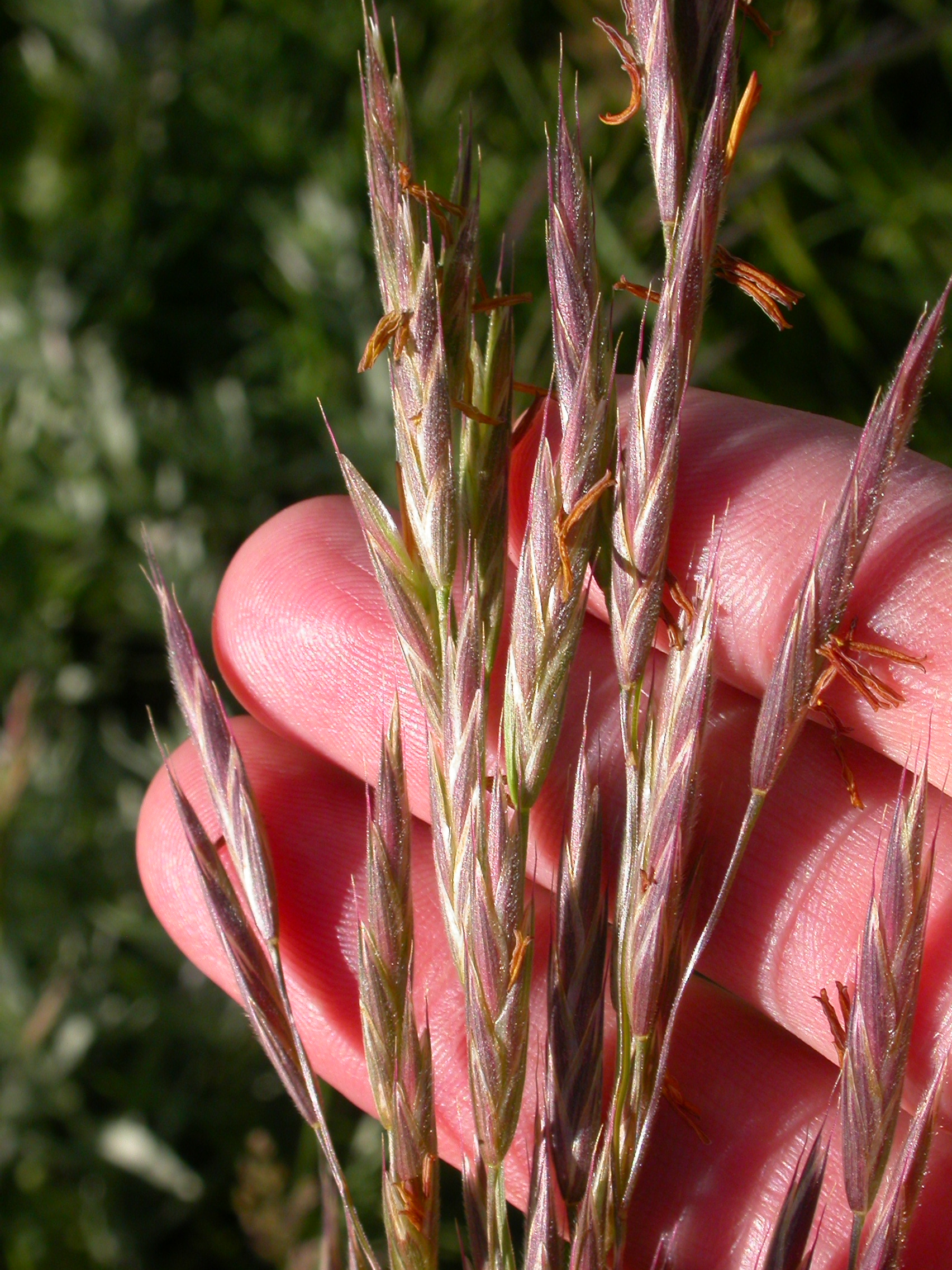 The inflorescences are usually ascending but sometimes weighted down to nearly a horizontal position. The spikelets are strongly compressed laterally, as evinced by the prominent keel on the glumes and lemmas.